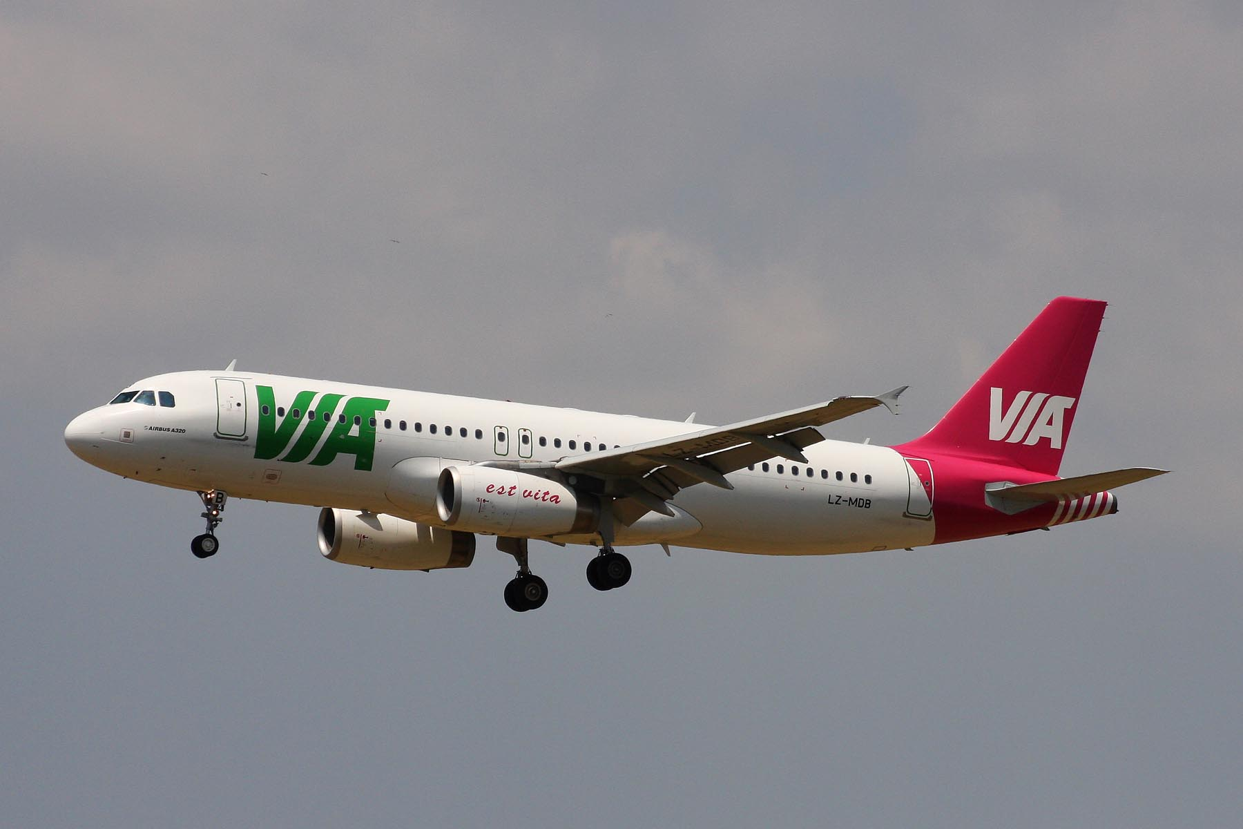 Airbus A320-214 LZ-MDB of Air VIA on approach at PMI (Palma de Mallorca Airport).